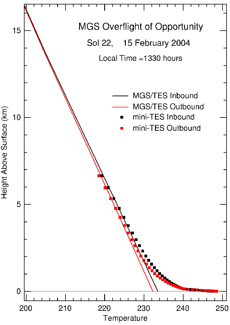 A Full Profile on Mars Temperature - This figure shows the first ever atmospheric temperature profile measured from the top of the Mars atmosphere all the way to the surface. It was made using the combination of a temperature measurements derived from the Mars Global Surveyor thermal emission spectrometer (lines) and temperature measurements from the Mars Exploration Rover Opportunity's miniature thermal emission spectrometer instrument (dots). The orbiter's instrument can measure the temperature downward from the top of the atmosphere, but cannot see accurately all the way to the ground. From its position on the martian surface, the rover's instrument can measure the temperature looking upward, but can only see to about 6 kilometers (4 miles) high. The region where these two measurements cross (about 4 to 6 kilometers or 2.5 to 4 miles above the martian surface) match very closely. The region also provides the first ever profile that extends from about 60 kilometers (37 miles) above the surface all the way down to the surface. Temperatures are indicated in degrees Kelvin.